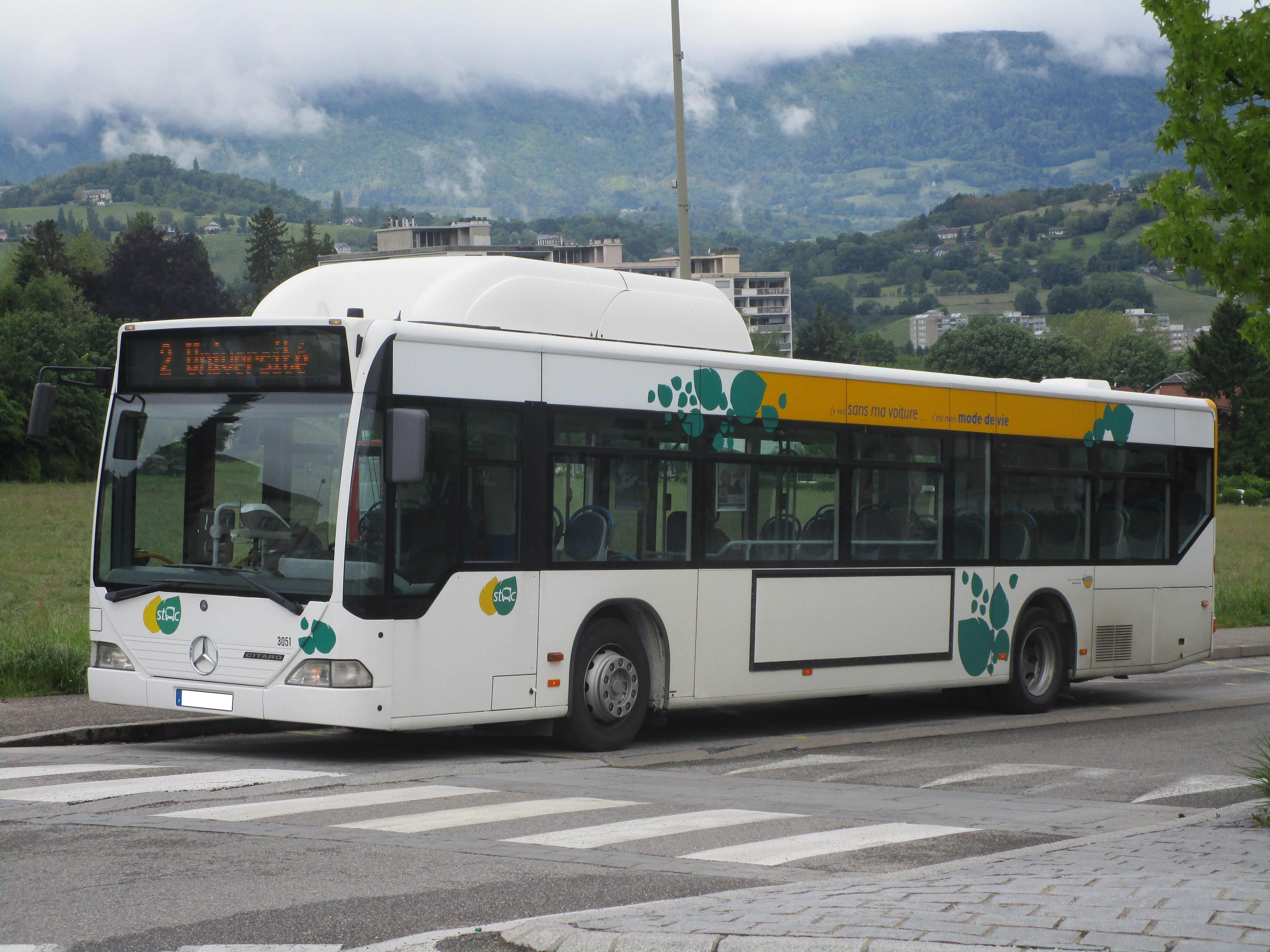 The bus Mercedes-Benz Citaro C1 n°3051 of the STAC at the call Université Jacob in Jacob-Bellecombette on May 24, 2016.